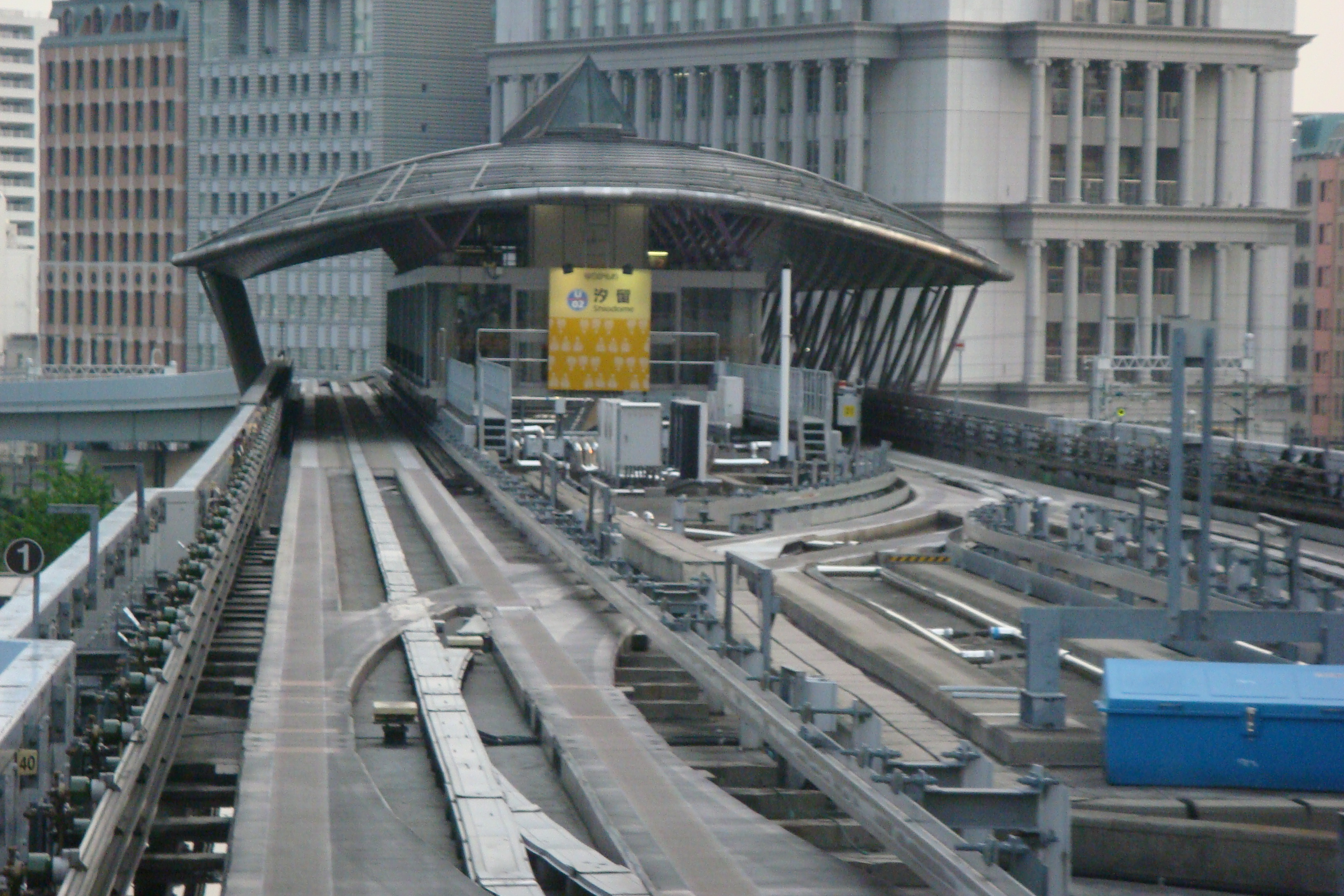 Shiodome Station (2008/05/16 Minato, Tokyo, JAPAN)